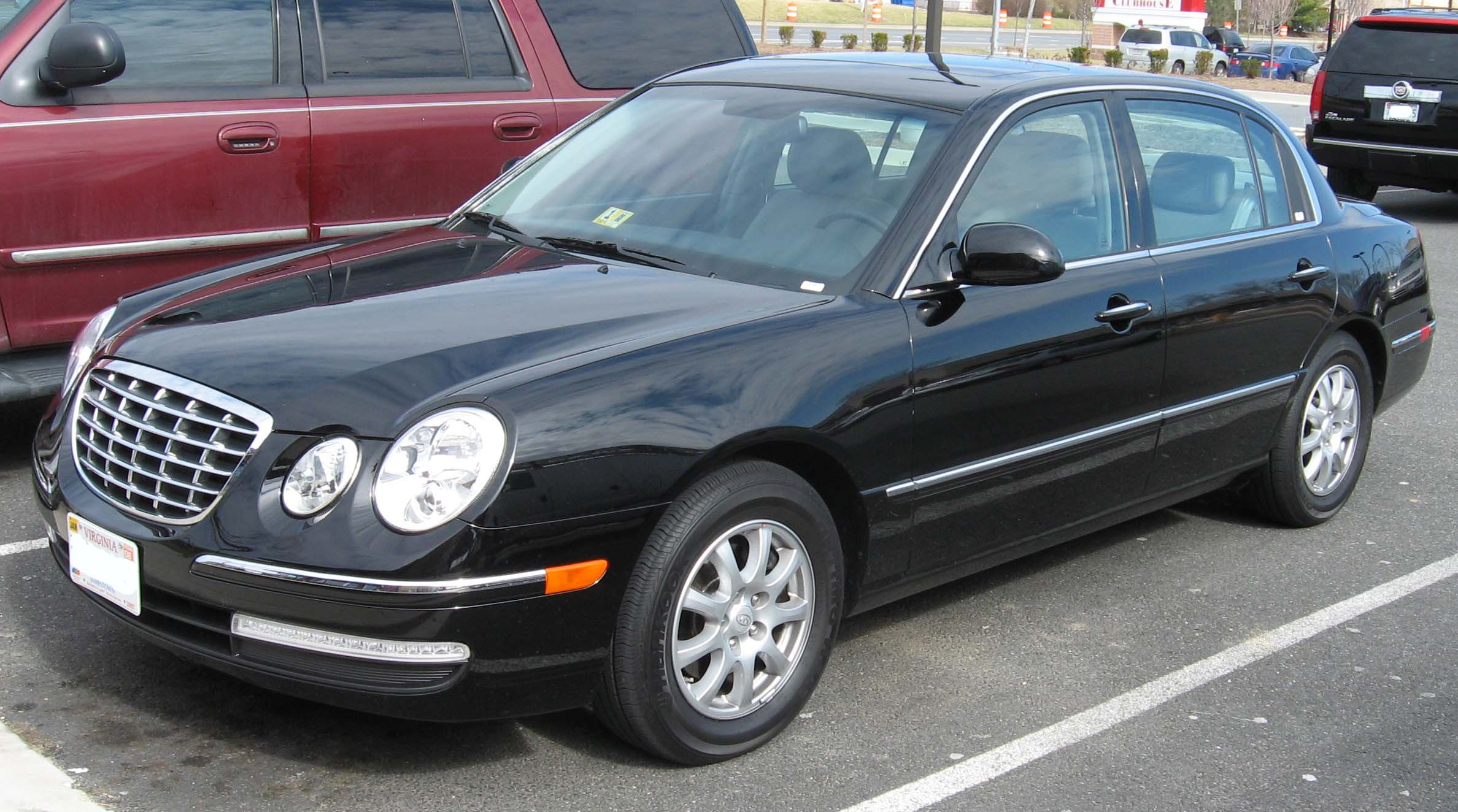 2007 Kia Amanti photographed in USA.